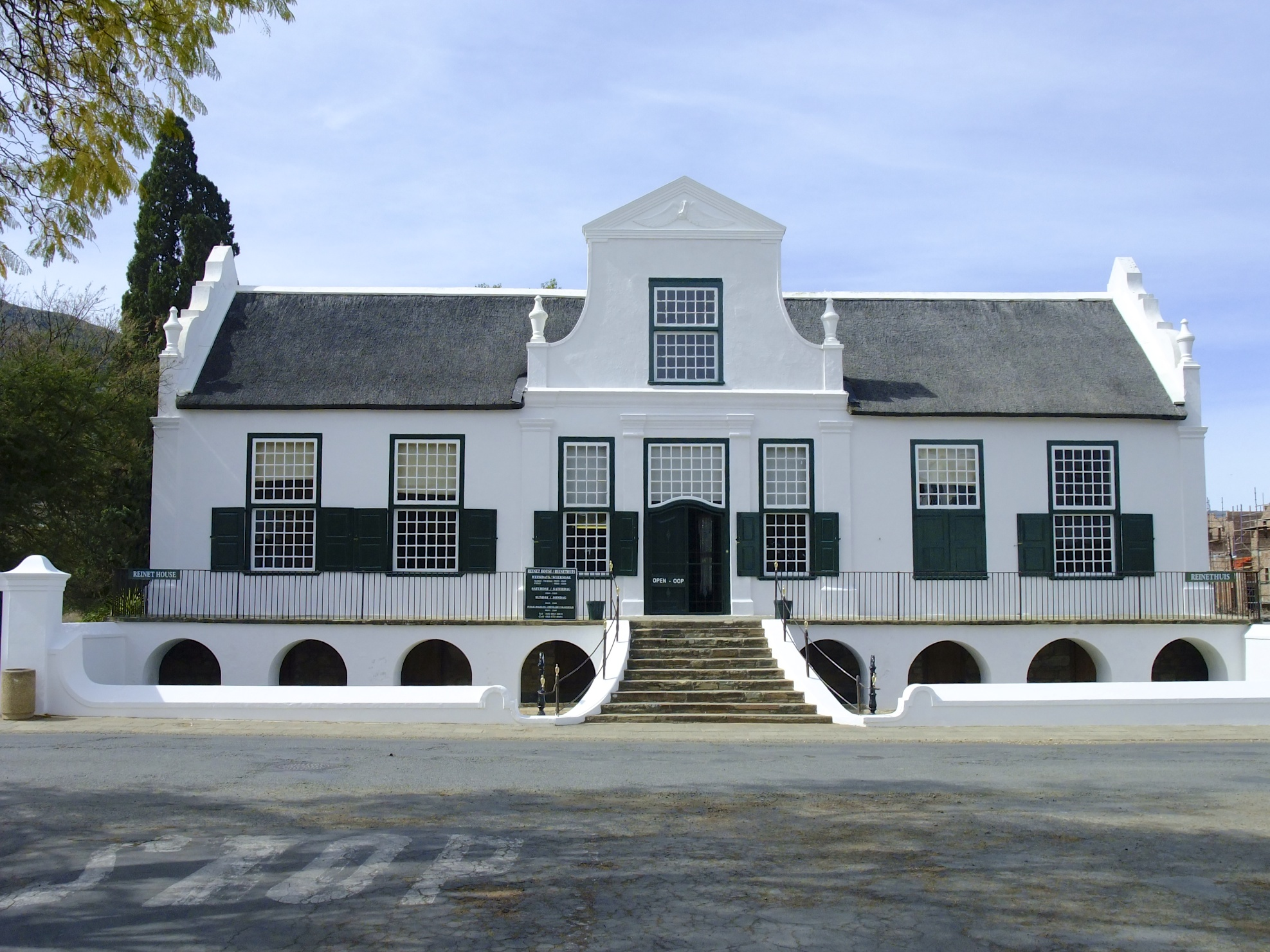 Reinet House in Graaff Reinet This media shows a South African Protected Site with SAHRA file reference 9/2/033/0002-575.